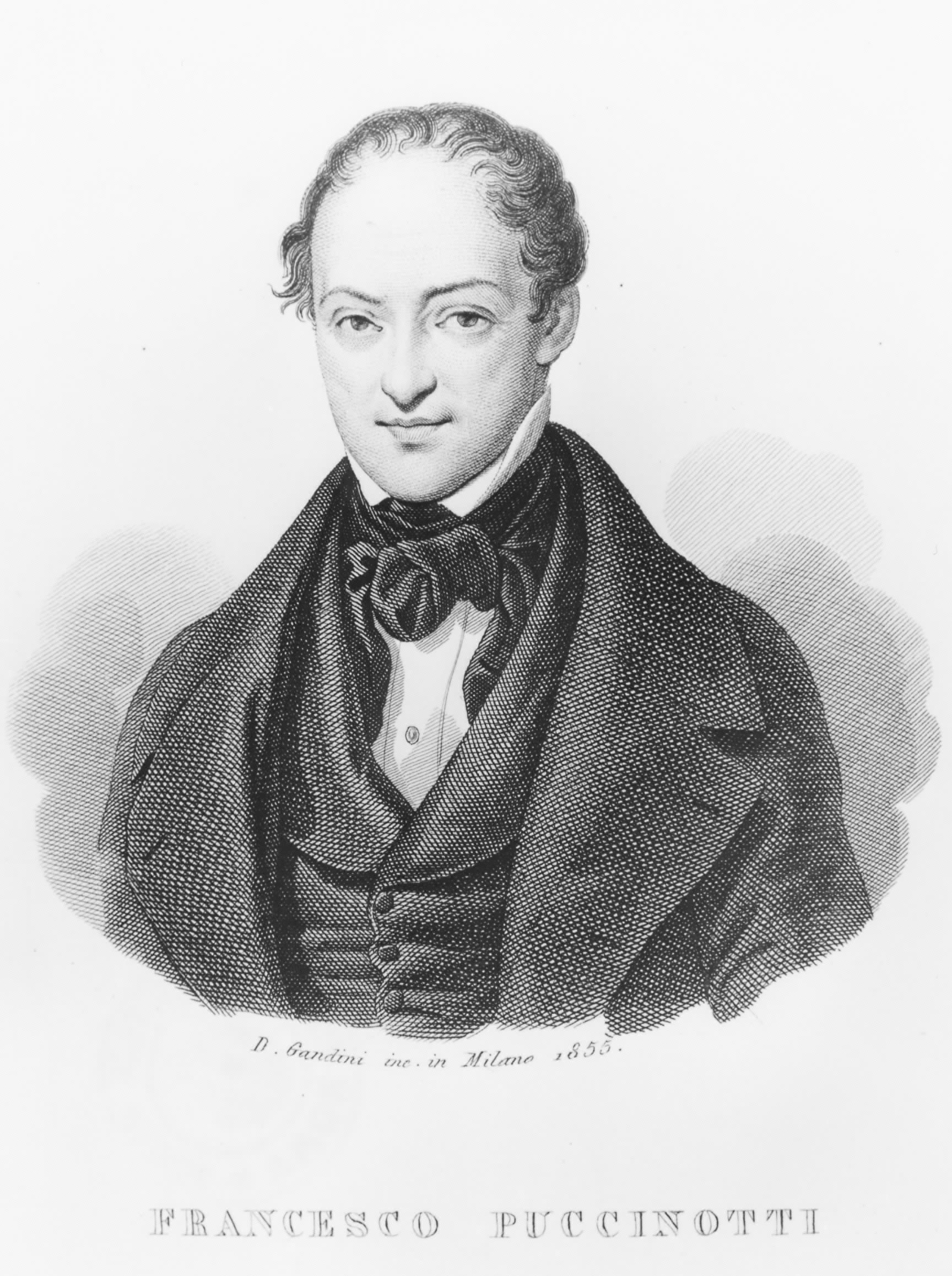 Engraving showing a portrait of Francesco Puccinotti, drawn/engraved by “D. Gandini” in Milan in 1855